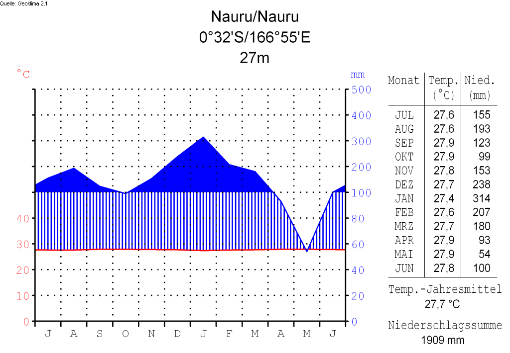 climate chart in the format by Walter and Lieth, metric, °Celsisus and millimeters, made with Geoklima 2.1